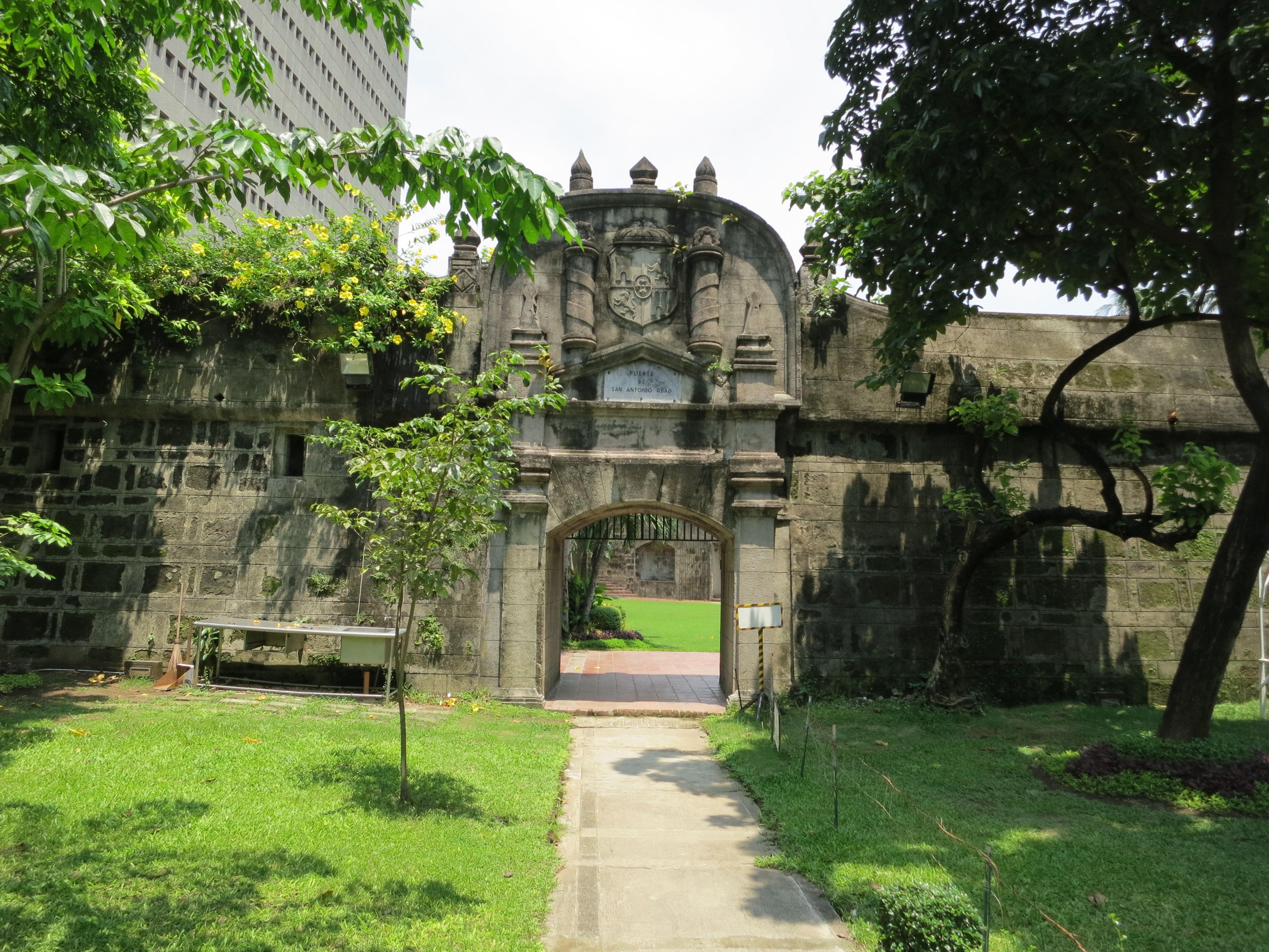 Back entrance of the Fort of San Antonio Abad showing restored Spanish-era bas relief work.